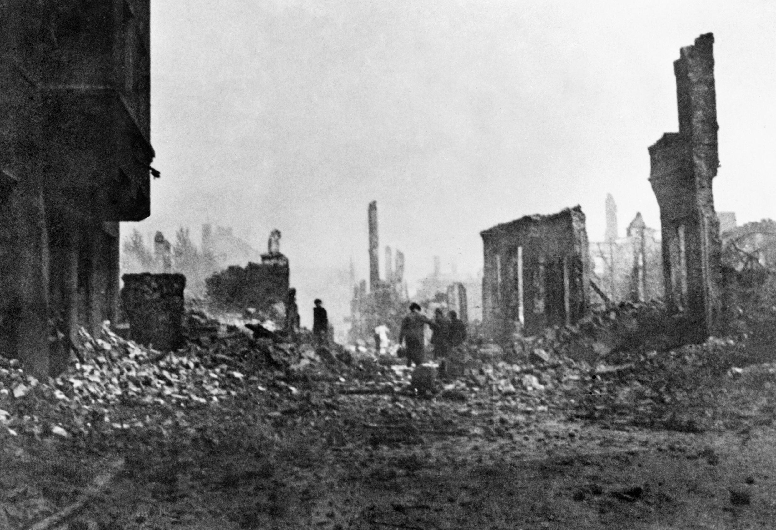 Hamburg in Ruins Unique Eye Witness Photographs